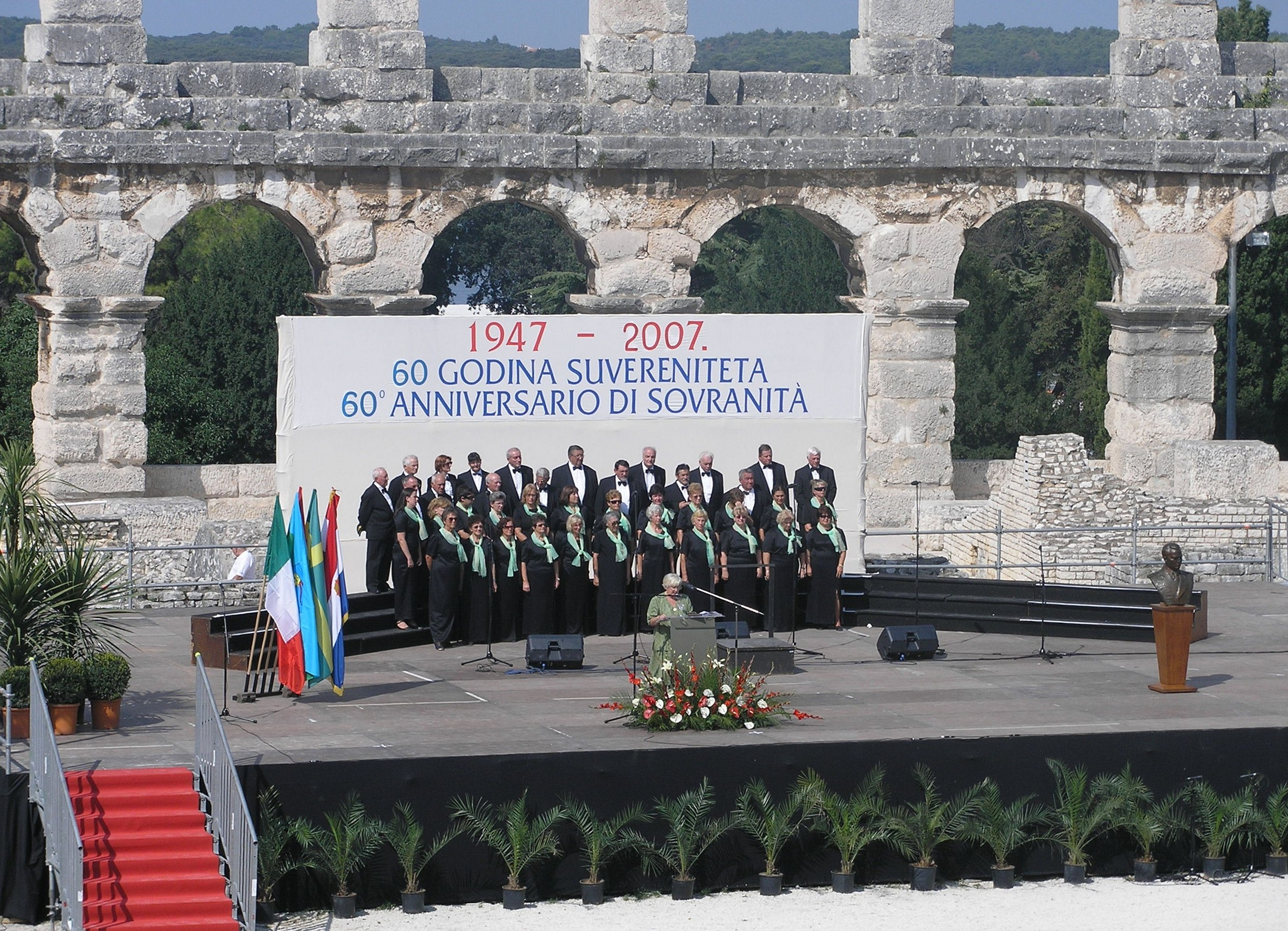 Photo from the commemoration of the 60th anniversary of Istria, and part of the Croatian litoral becoming part of Yugoslavia (Croatia and Slovenia today), as a decision by the Paris peace conference in 1947. The areas were parts of Italy prior to WW2. (Tito's bust can be seen on the right)